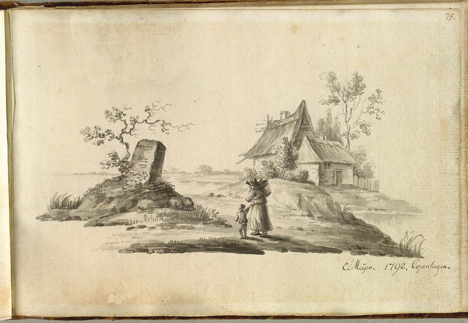 Drawings from engraver Gerhard Ludvig Lahde`s stambog, a sort of guestbook he had with him when travelling. A lot of friends and artists, some of them unknown today, wrote small greetings and made scetches in his stambog. There are drawings by F. Camradt, C. D. Fritsch, Hans Hansen, J. L. Lund, Elias Meyer, C. F. Stanley, Runge, Friedrich, Bertel Thorvaldsen and C.W. Eckersberg.